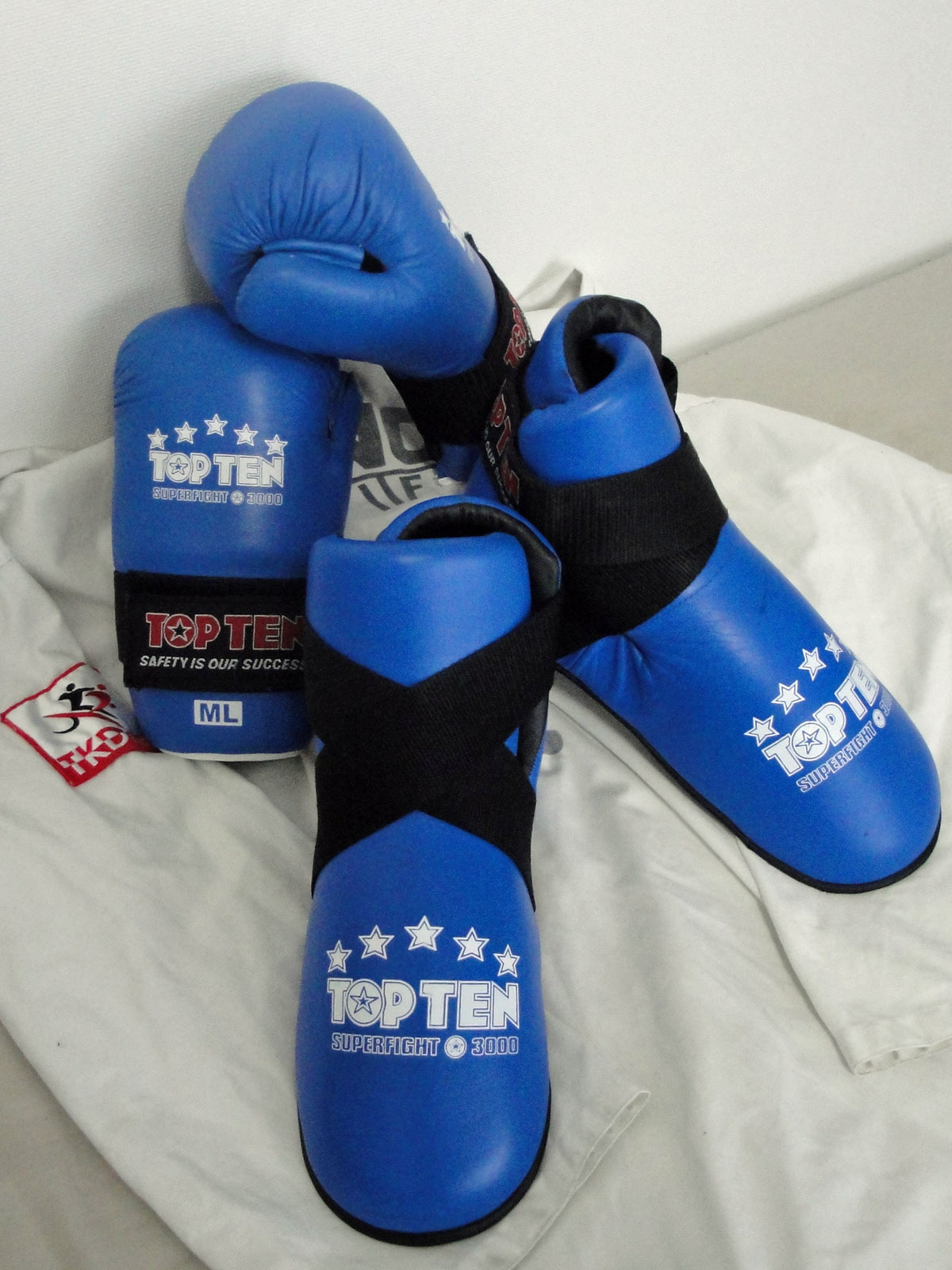 Typical Style ITF Taekwon-Do Sparring Gear